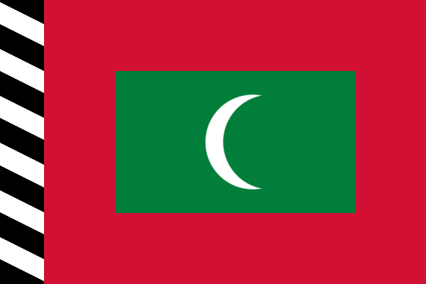 Flag of the Maldives from 1953 to 1965